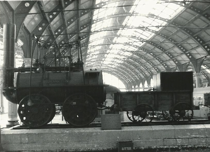 Original description reads "George & Robert Stephenson 0-4-0 "Locomotion No1" (originally named "Active") built by Robert Stephenson & Co. 1825 for the Stockton & Darlington Railway. It was withdrawn in 1841 and then used as a stationary engine. It was preserved in 1857."